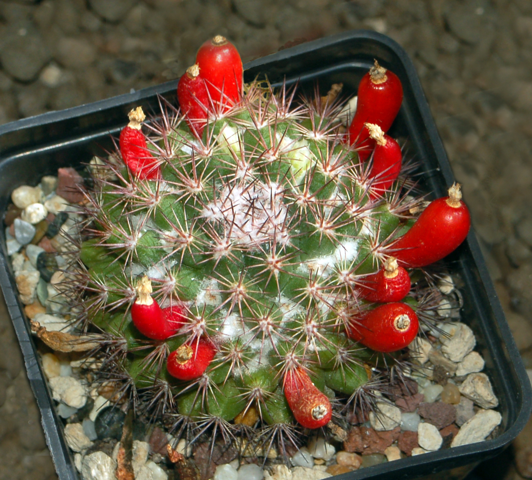 Mammillaria mammillaris with red club-shaped fruits at the Orto Botanico dell'Università di Genova